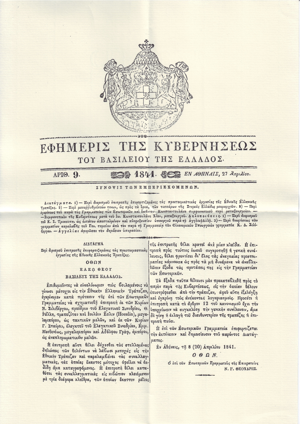 Royal Decree for the establishment of National Bank of Greece, signed by King Otto of Greece